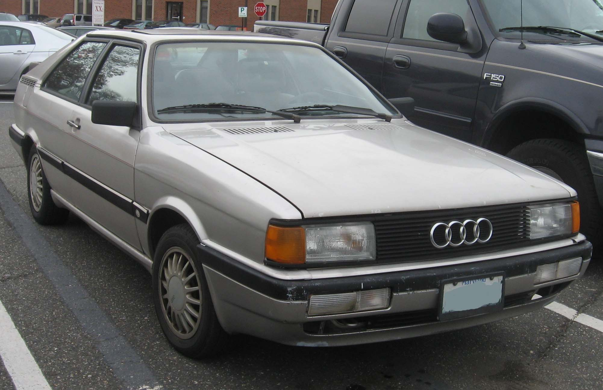 Audi GT photographed in College Park, Maryland, USA.